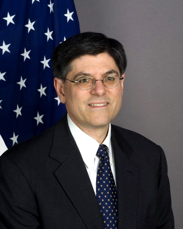 Deputy Secretary of State for Management and Resources Jacob Lew.